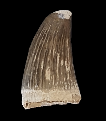 Tooth of mosasaur Tylosaurus ivoensis, excavated in the Kristianstad Basin and exhibited at the "Havsdrakarnas hus" exhibition in Bromölla, Sweden. Background digitally replaced with black color.